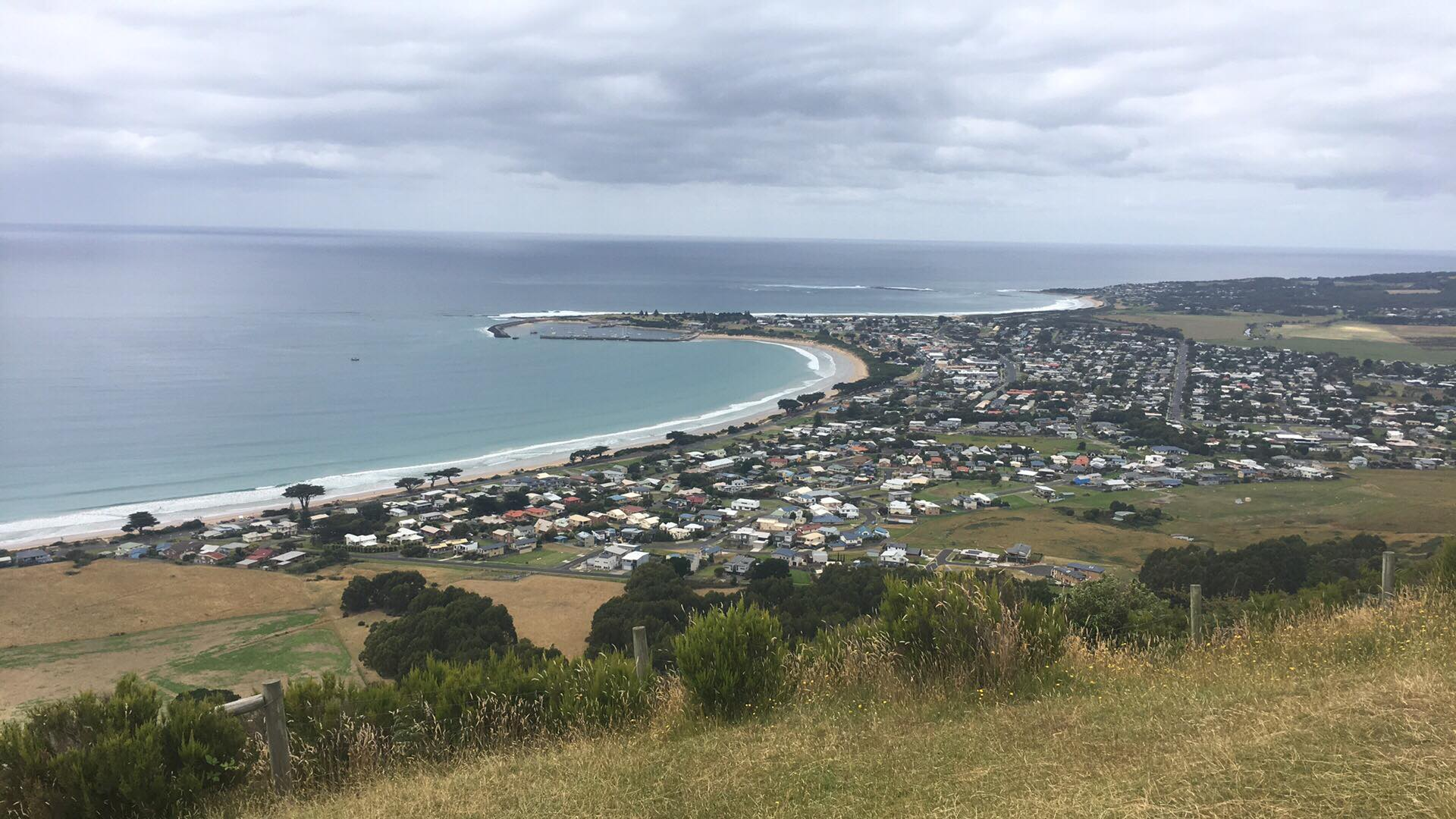 This is an image taken from the hilltop of the Mariners Lookout, showing Apollo Bay, on the Australian Surf Coast in Victoria. It is a part of the Great Otway National Park.